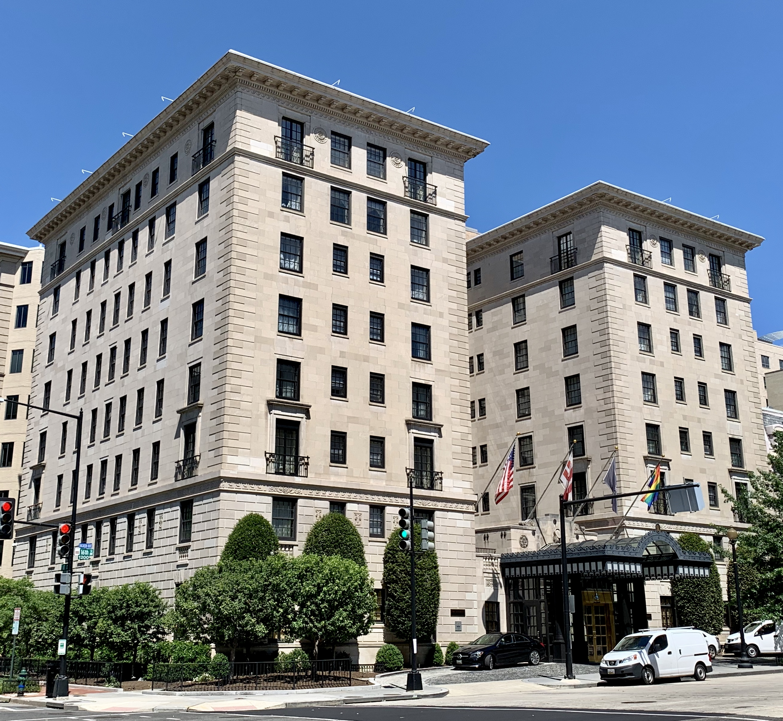 The Jefferson located at 1200 16th Street NW in Washington, D.C. It was designed by local architect Jules Henri de Sibour in 1922. Originally known as The Jefferson Apartment, the Beaux-Arts building was converted into a hotel in 1955. The building is a contributing property to the Sixteenth Street Historic District.